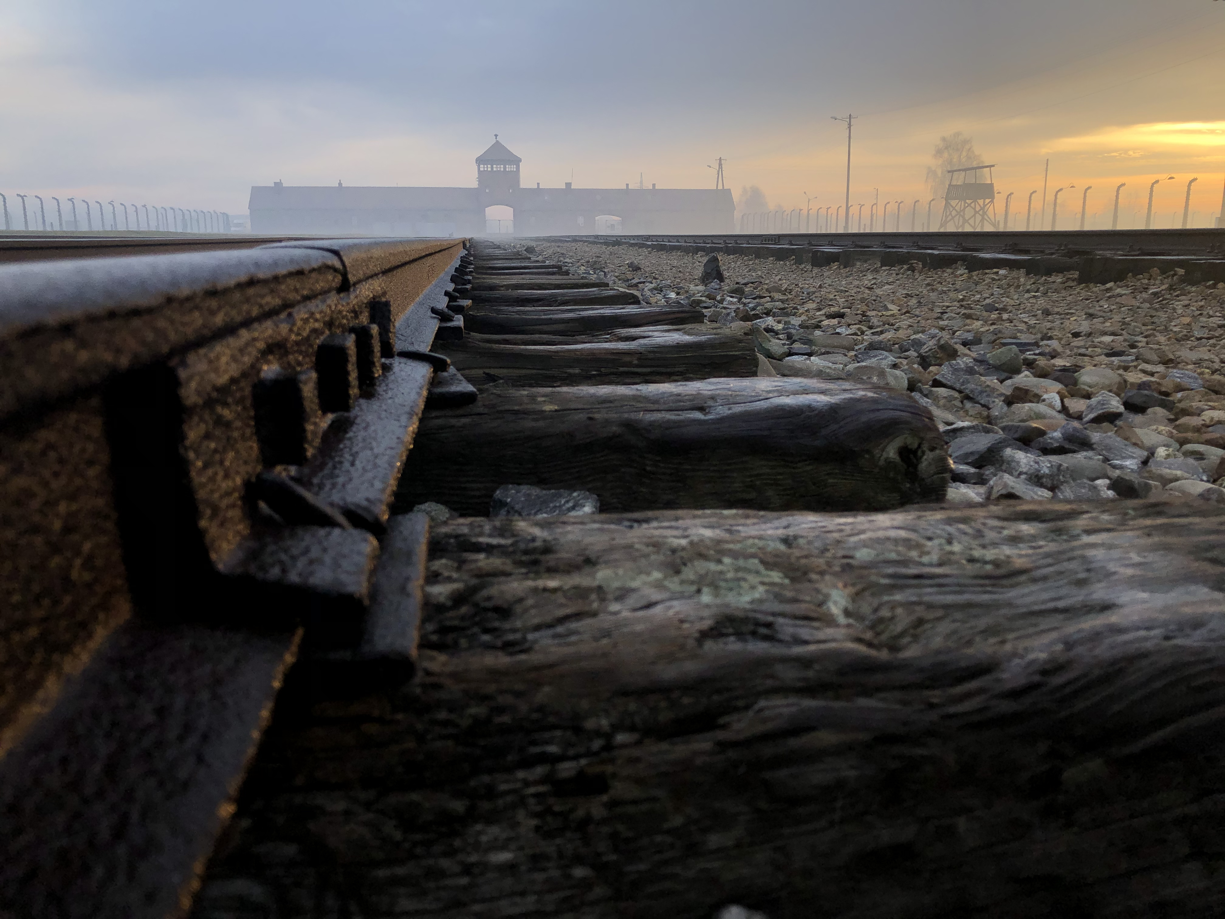 Rail was the main means of transport used by the Germans for deportation to Auschwitz. In the spring of 1944, shortly before the arrival of over 400,000 Jews from Hungary, the new ramp was completed directly inside the Auschwitz II-Birkenau camp. It is estimated that over half a million people arrived there from mid-May 1944. The trains entered the camp through the main gate of the camp, so-called Gate of Death.